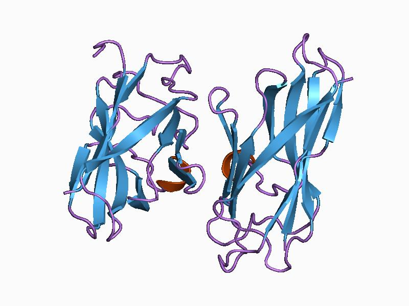 Cartoon representation of the molecular structure of protein registered with 1aoh code.